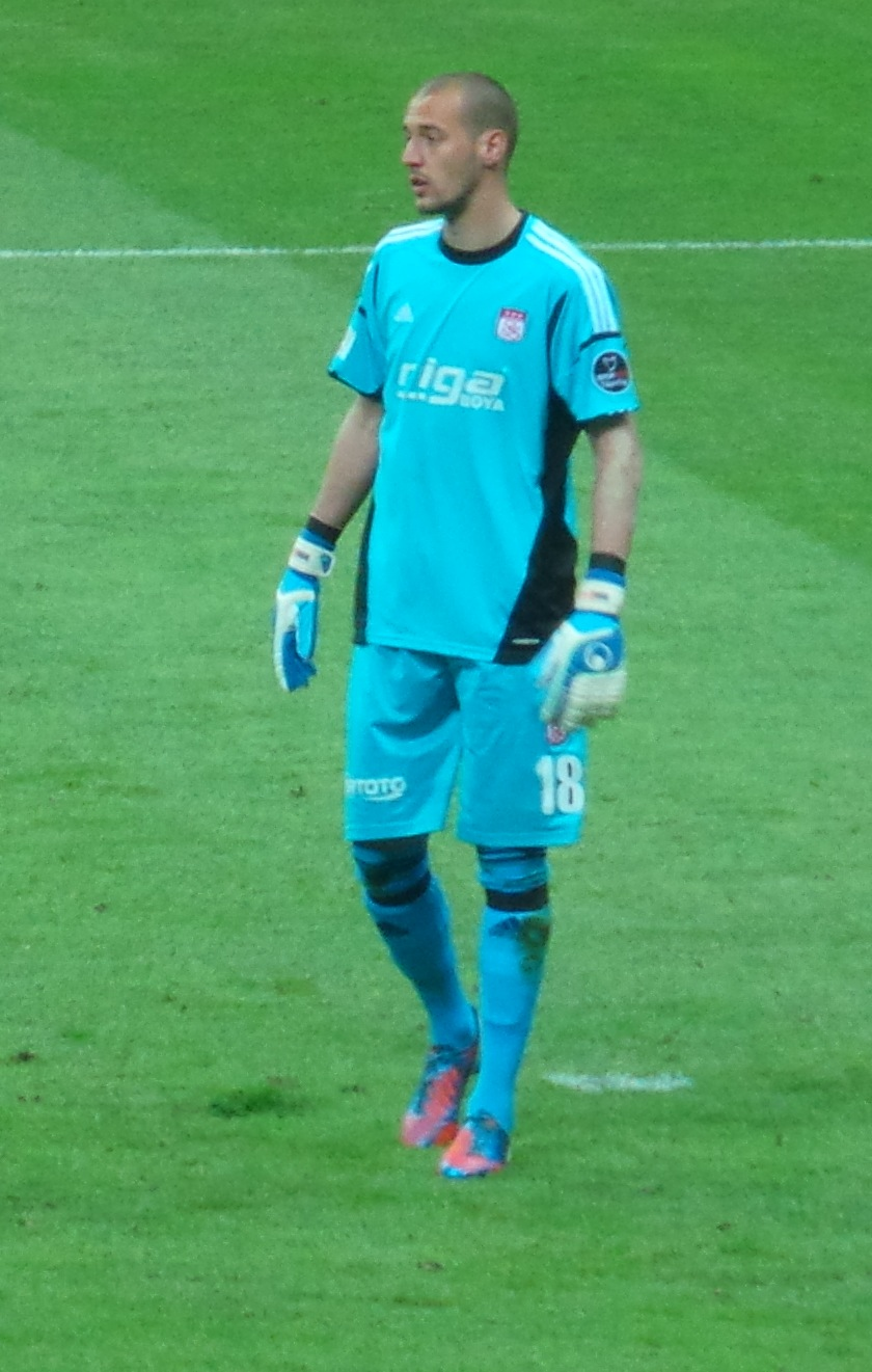 Borjan vs GS